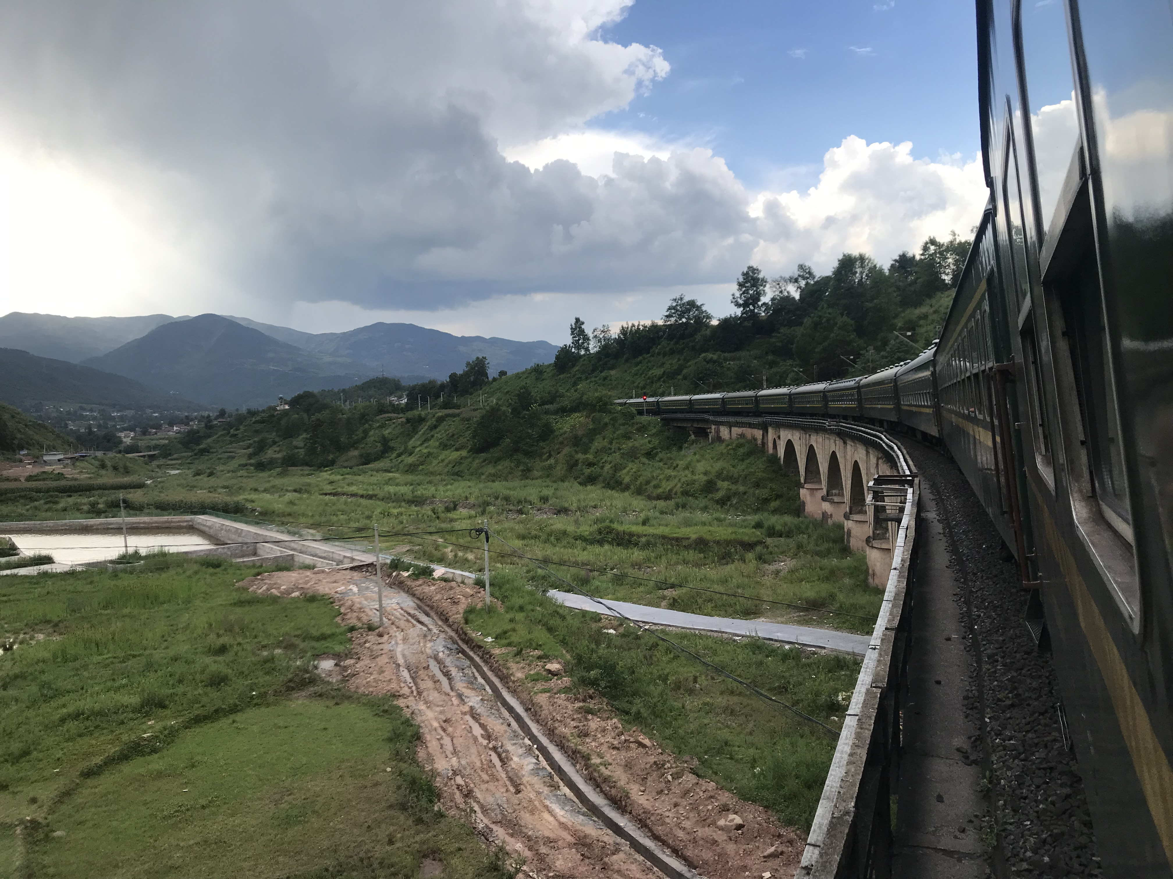 201908 Chengdu-Kunming Railway over S208 in Shangpuxiong